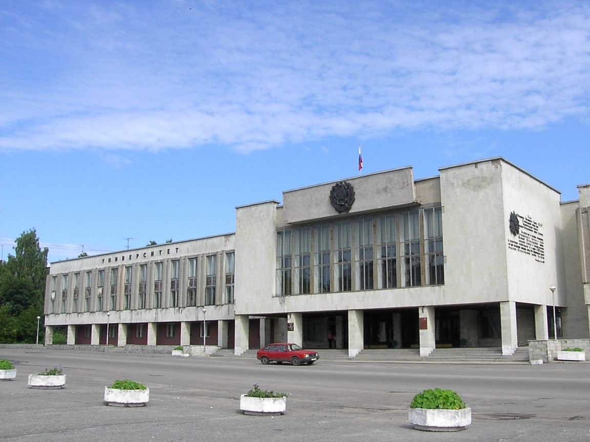 Luga (Leningrad Oblast). Center.